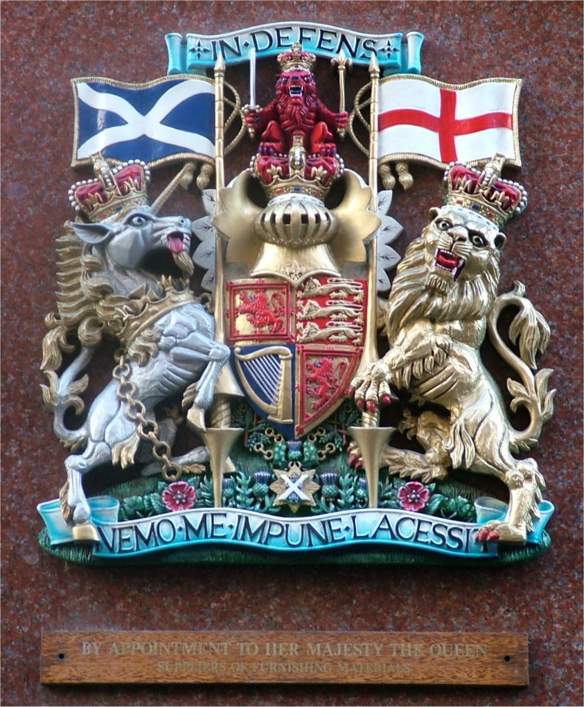 Royal Warrant outside the premises of Jenners in Edinburgh, Scotland.